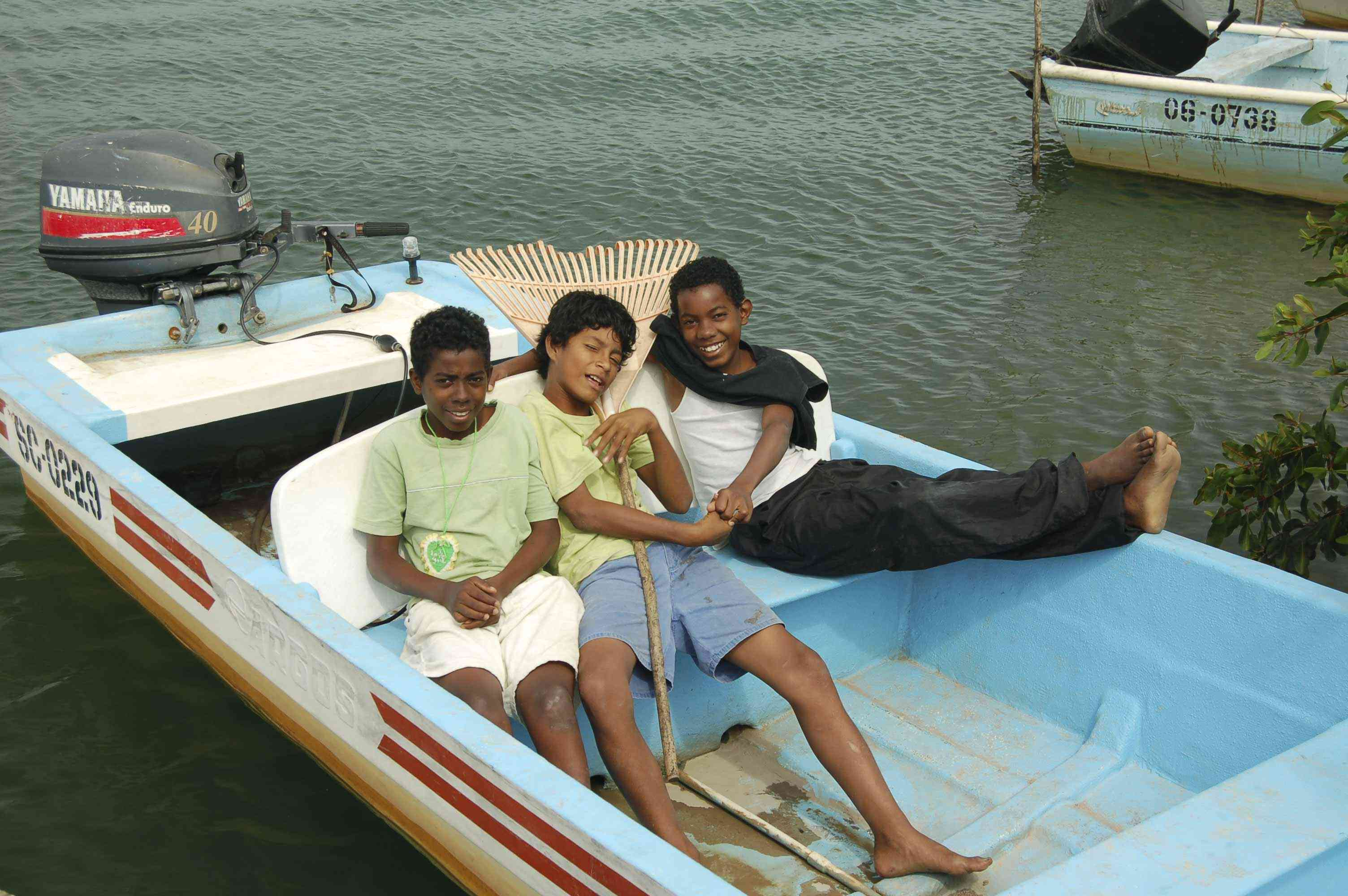 Carib boys horsing around in a boat, Mango Creek, Belize, November 2007.